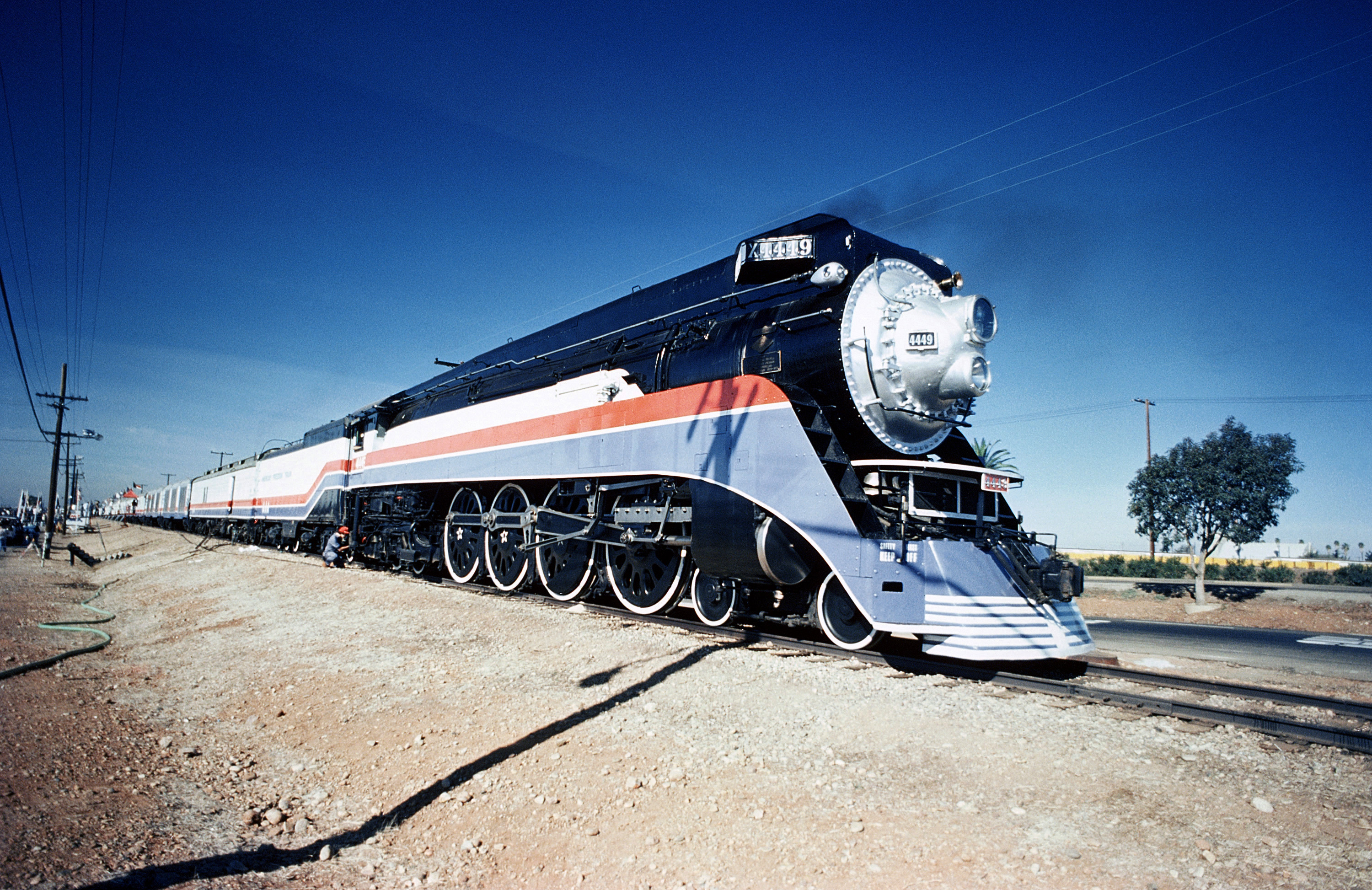 The Freedom Train passes through Naval Air Station, Miramar, California.